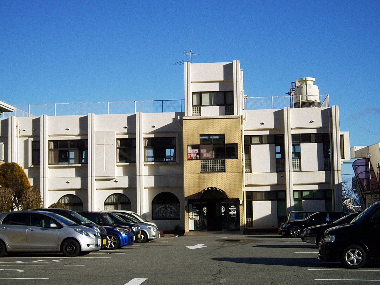 San'iku Center (Vegetarian restaurant & gift shop "Shalom") at Kobe Adventist Hospital, located in Kita-ku, Kobe, Hyogo, Japan.